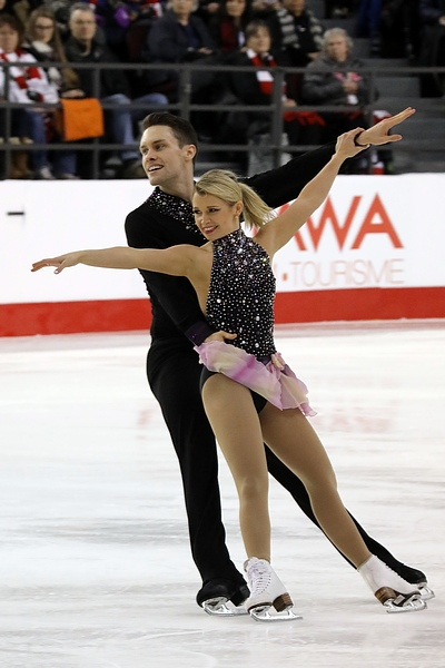 Kirsten Moore-Towers and Michael Marinaro at the 2017 Canadian Figure Skating Championships.